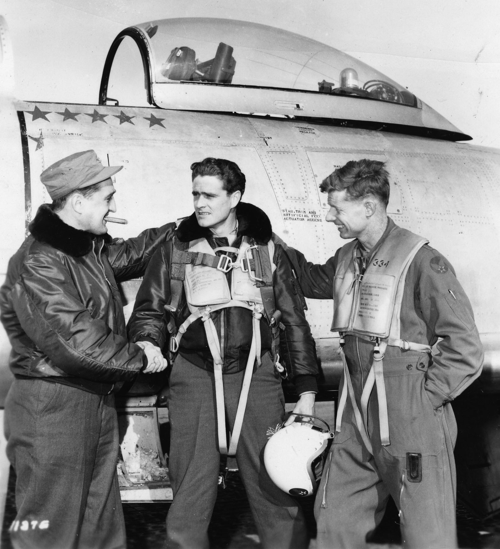 Francis S. Gabreski (left) congratulates another World War II and Korean War ace, Maj. William T. Whisner (center). On the right is Lt. Col. George Jones, a MiG ace with 6.5 kills. (U.S. Air Force photo)